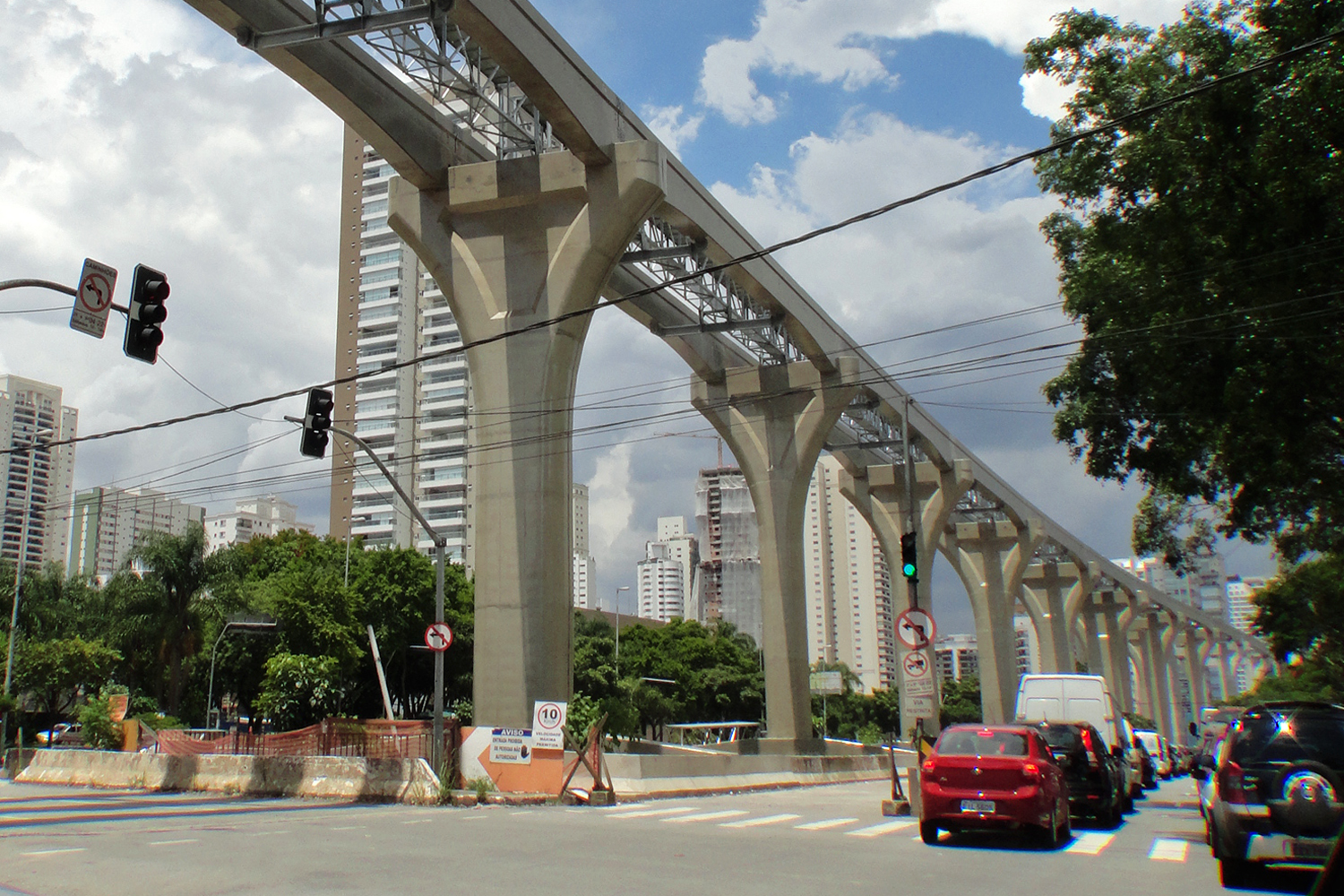 Construction works of Linha 17-Ouro Monorail (Monotrilho) parallel to Jornalista Roberto Marinho Avenue, as part of the expansion of São Paulo Metrô subway network, São Paulo, Brazil